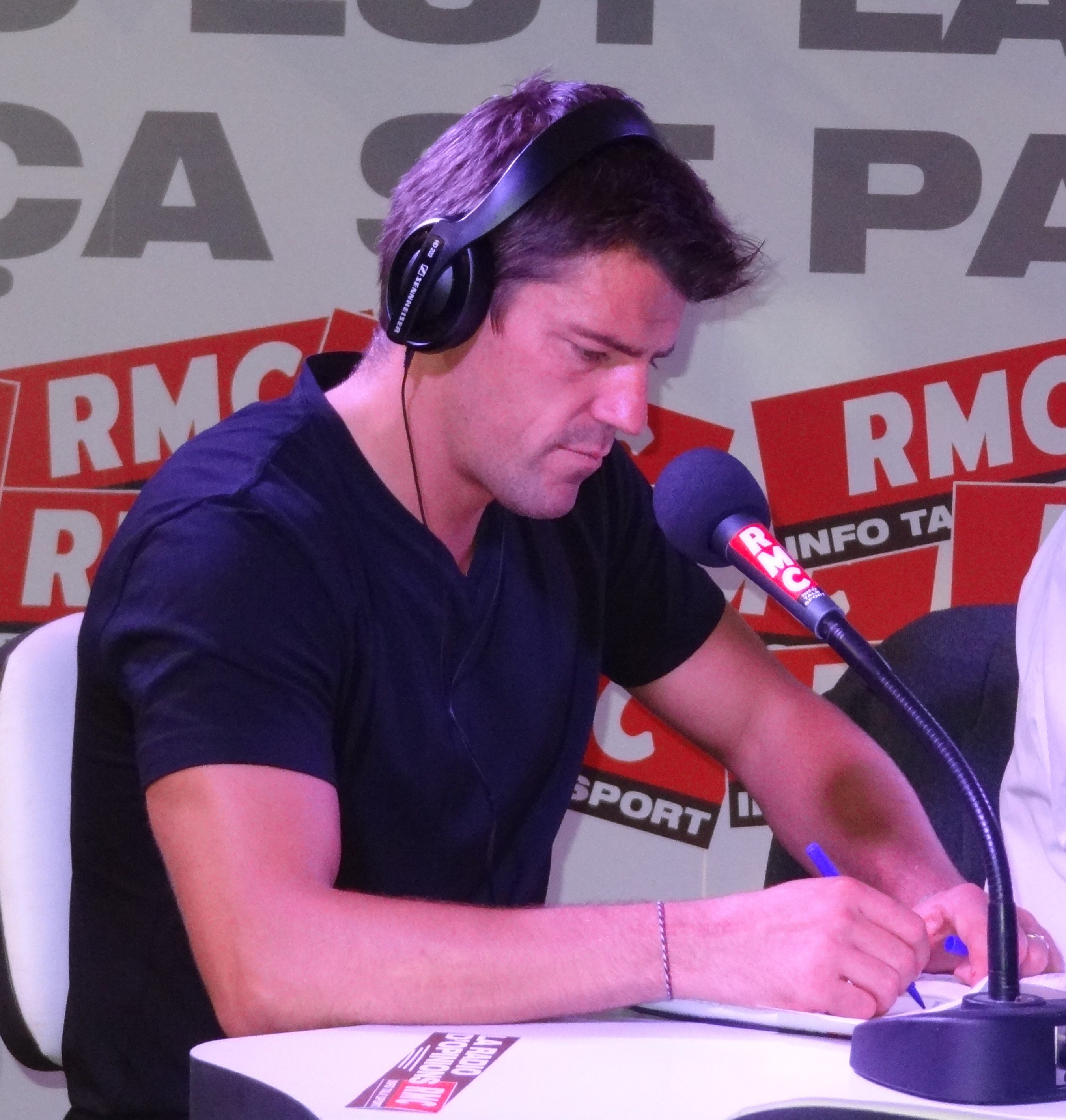 Grégory Coupet (RMC)